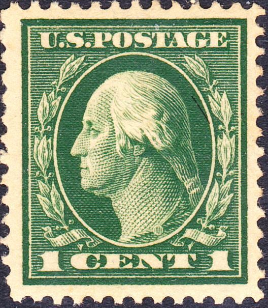 US Postage stamp: George Washington, 1912 Issue, 1c